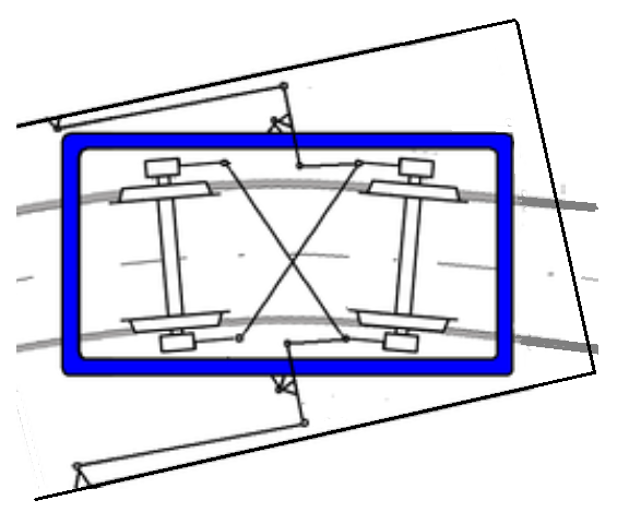 Bogie with forced radial steering of axles. Angle of an axle depends on the angle between bogie and carbody. Lateral suspension is not mentioned. Picture based on Česky: Podvozek s nuceně stavitelnými dvojkolími. Poloha dvojkolí je odvozena z natočení podvozku vůči skříni vozidla. Příčné vypružení není znázorněno.